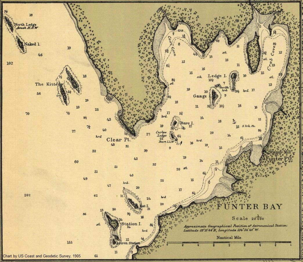 nautical chart of Funter Bay, Alaska